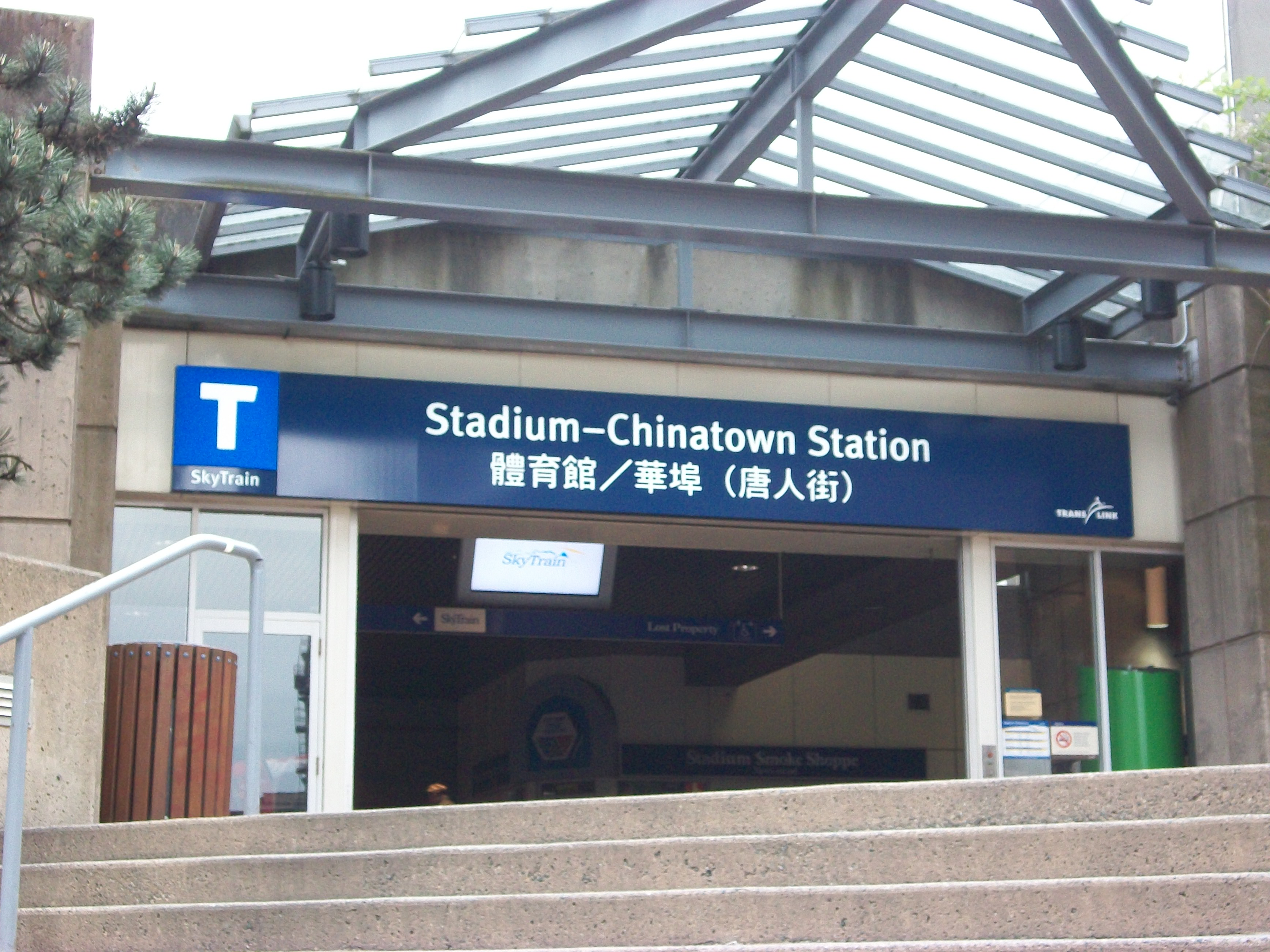 Entrance to Stadium-Chinatown station. The signage is new for the 2010 Winter Olympics, with the distinctive "T" symbol.